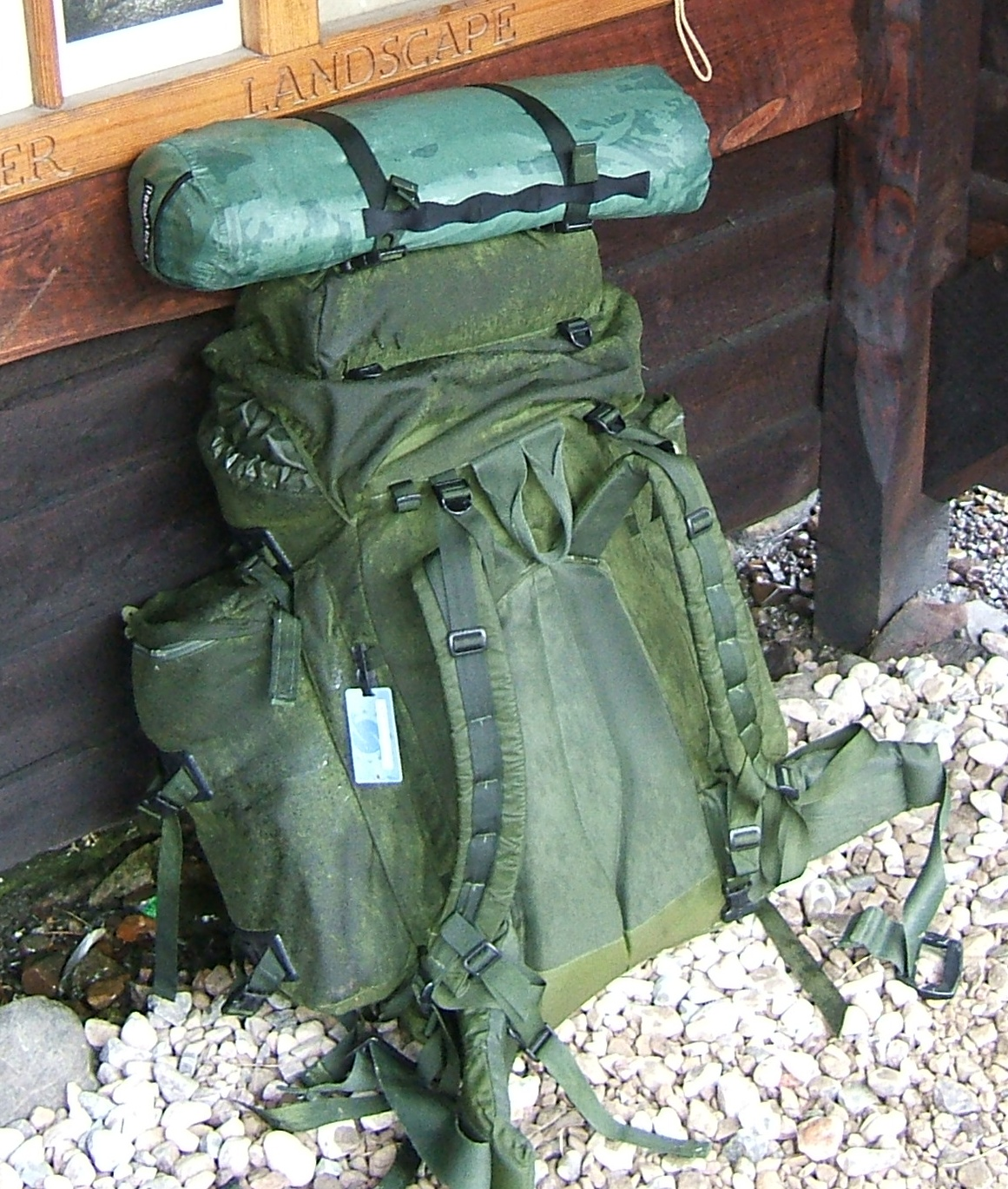 A large backpack for trekking (Berghaus Vulcan) Author: LHOON